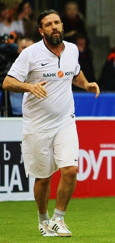 Vincent Candela